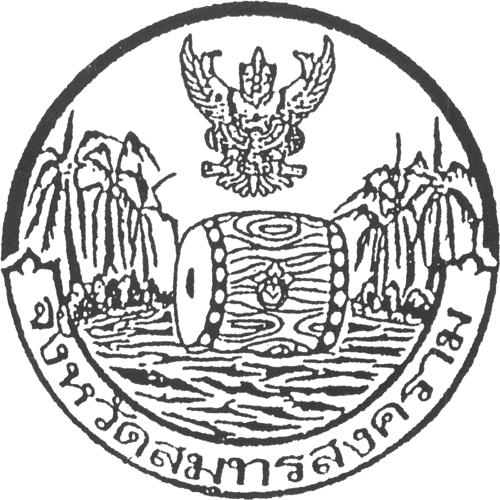 Provincial seal of Samut Songkhram province.